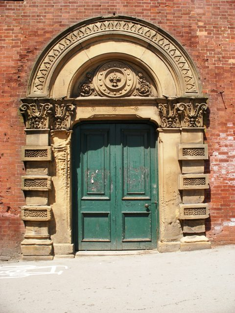 Railway Doorway I believe this doorway was an entrance to the railway station. It is just to the east of the railway bridge over Westgate.